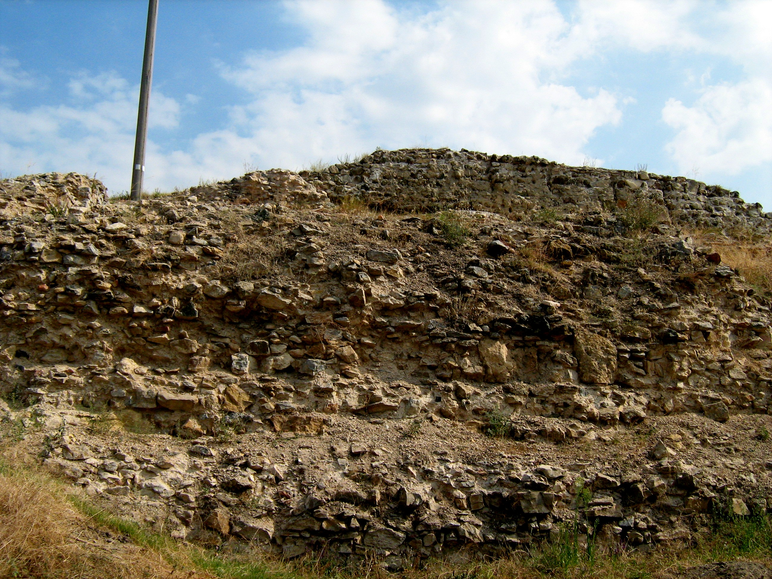 Noviodumum Fort, Isaccea, Romania